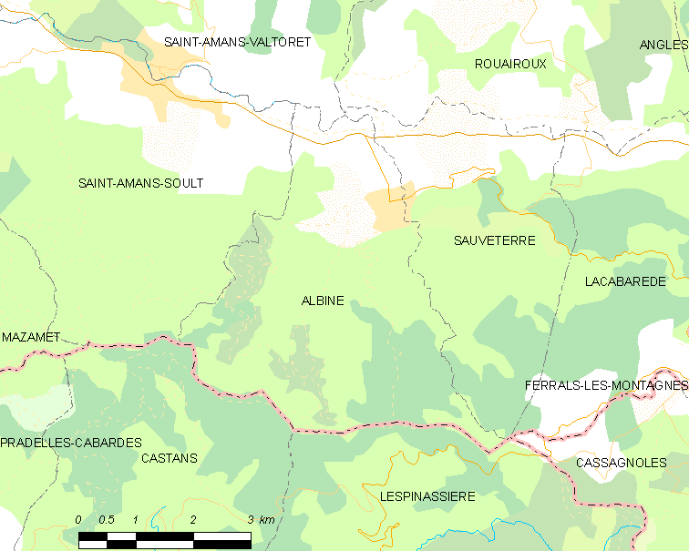 Map commune FR insee code 81005.png - Albine